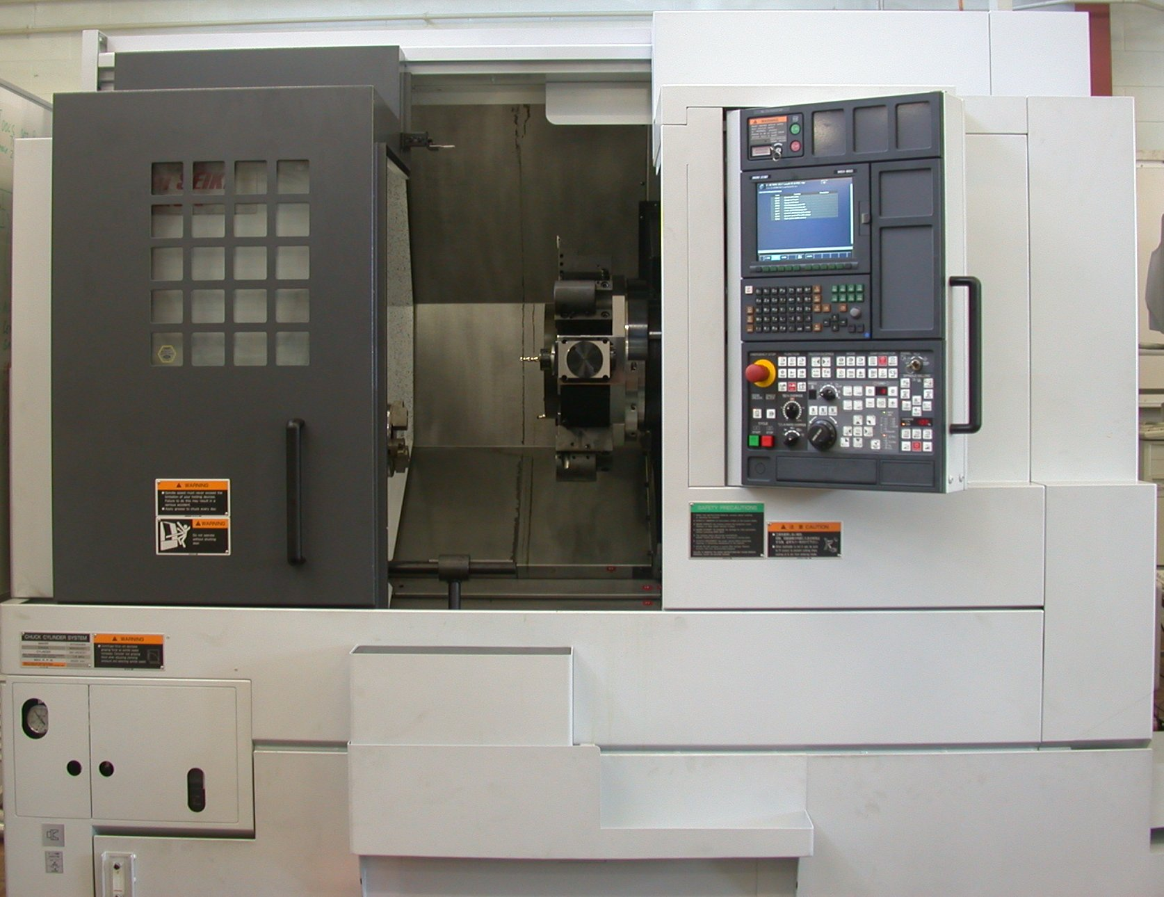 Picture of a Mori Seiki CNC lathe. Shows the door open and a view of the workarea and tool changer. Control panel and display at the right of the image.